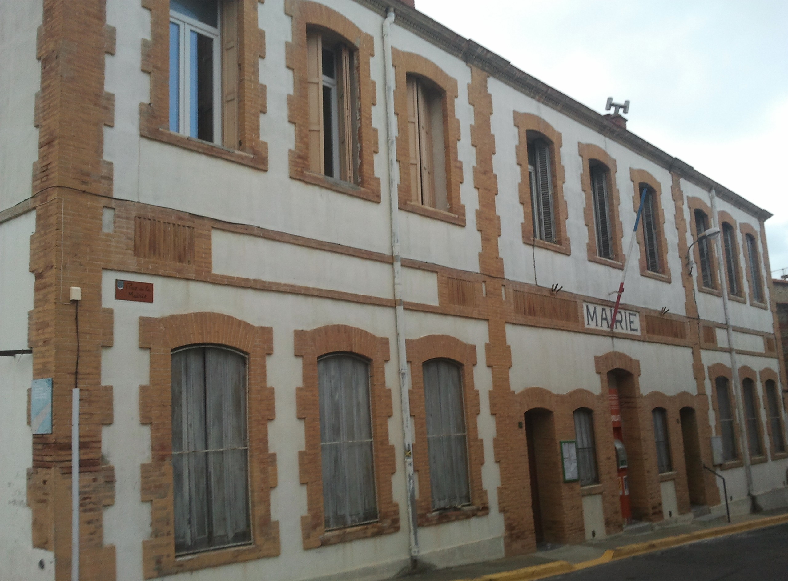 Town hall of Saint-Féliu-d'Amont